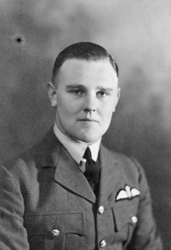 Portrait of Arthur Stewart King Scarf RAF, awarded the Victoria Cross: Siam, 9 December 1941.